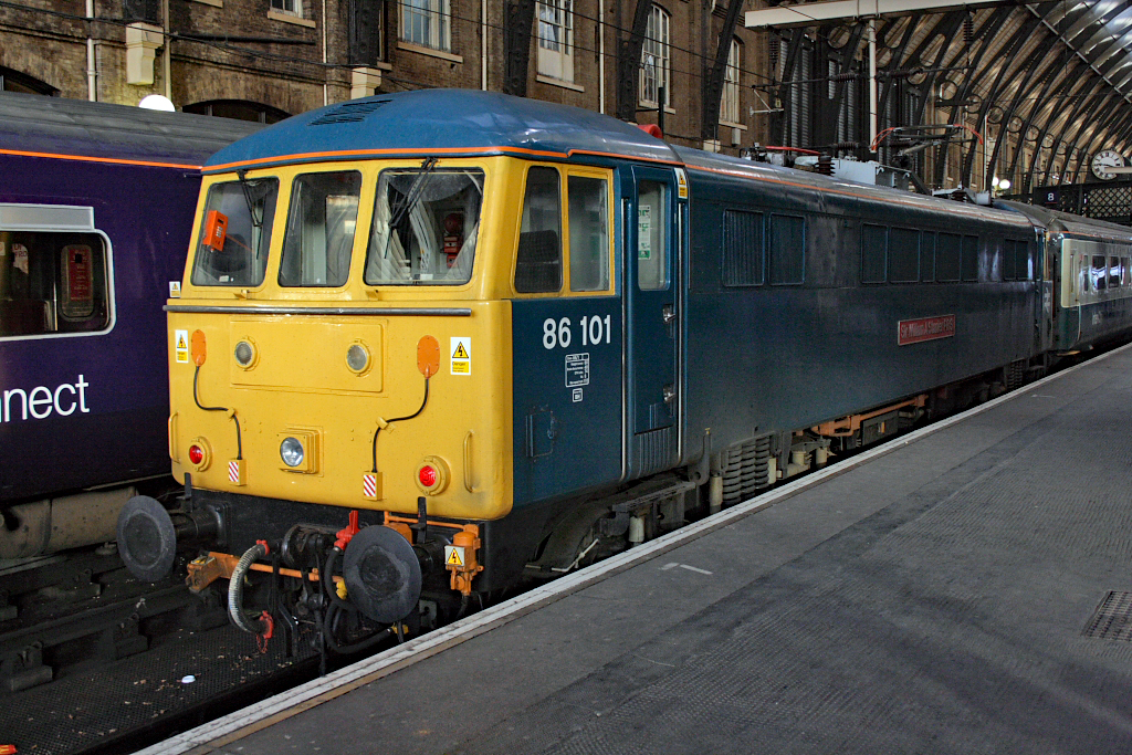 British Rail Class 86 number 86101 at London King's Cross railway station prior to departing with the 0934 Hull Trains service to Doncaster.